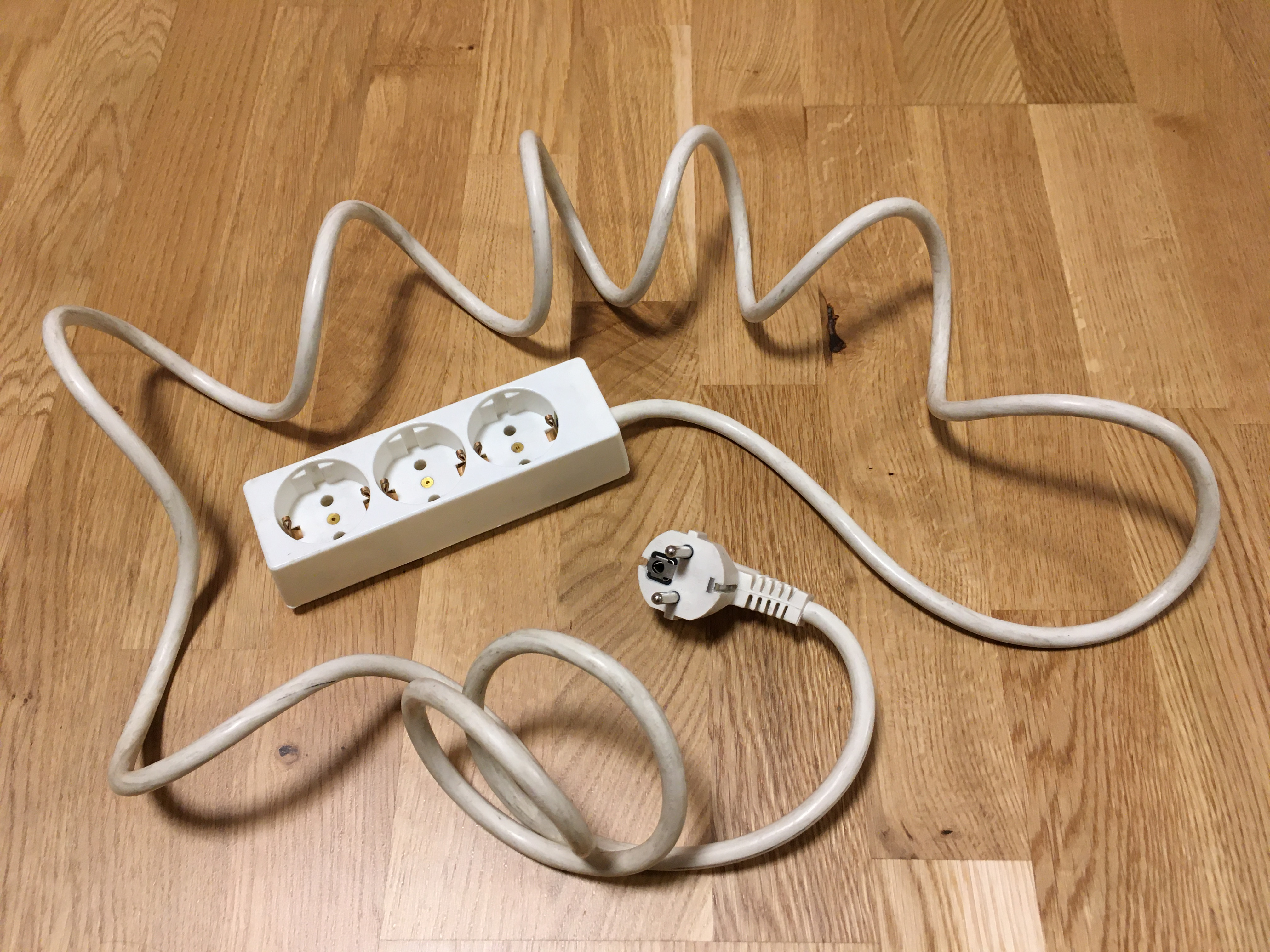 Extension cord for electricity expansion